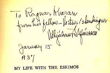 An inscription made by Vilhjalmur Stefansson on his book "My Life With the Eskimos"